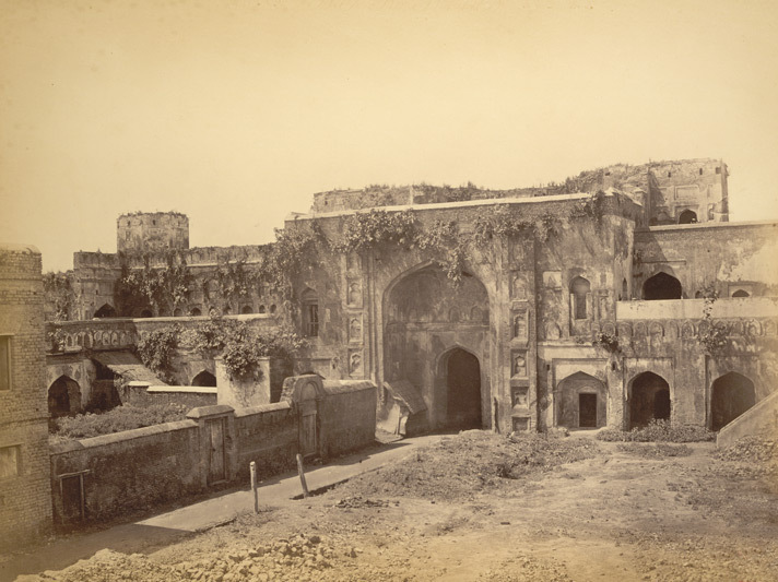 Photograph of the south side of Bara Katra, Dhaka, Bangladesh, taken in 1875.